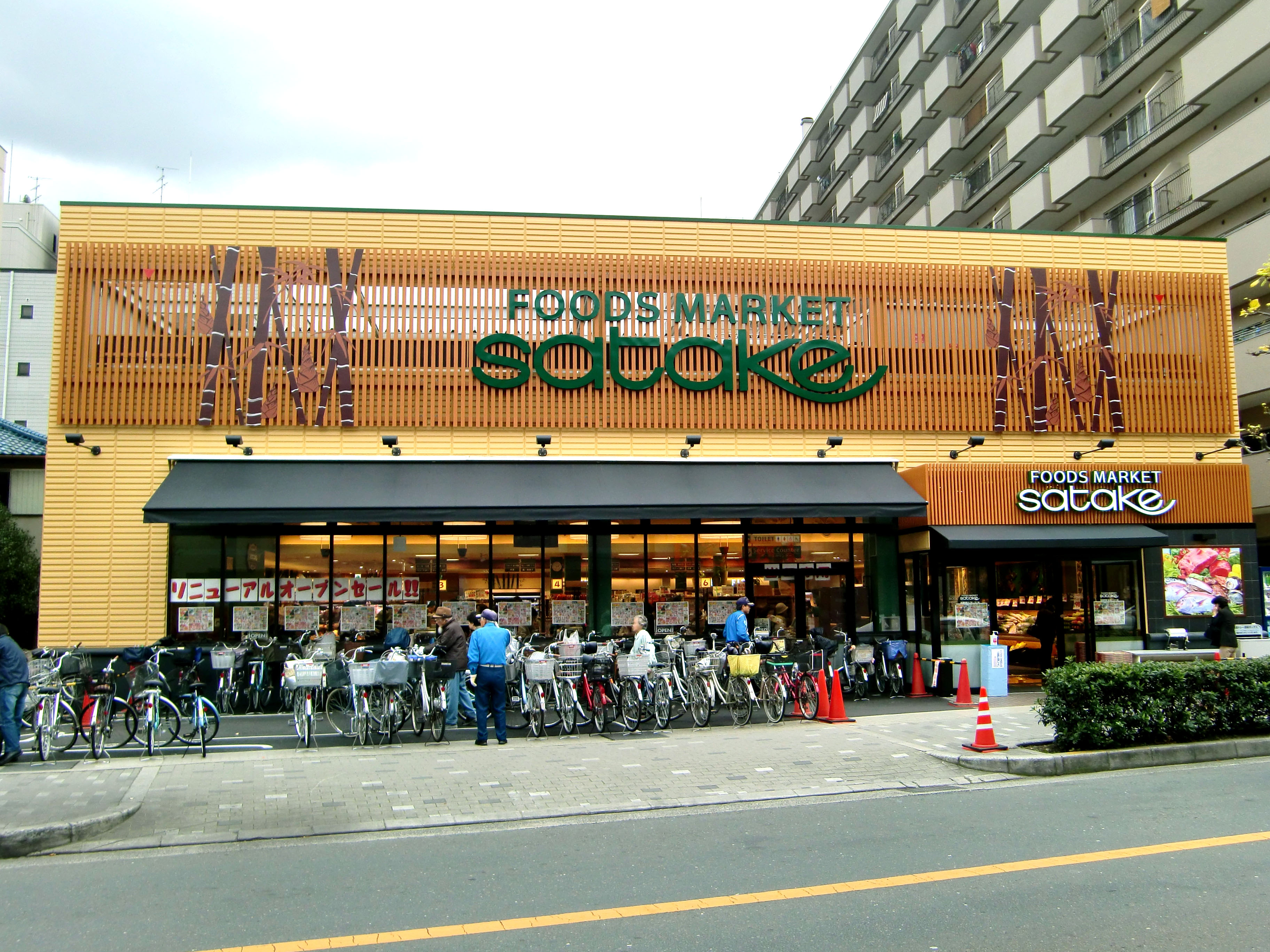 Satake Ibaraki Nishi-Ekimae,10-28 Nishi-Ekimae-Cho Ibaraki-City Osaka Japan.